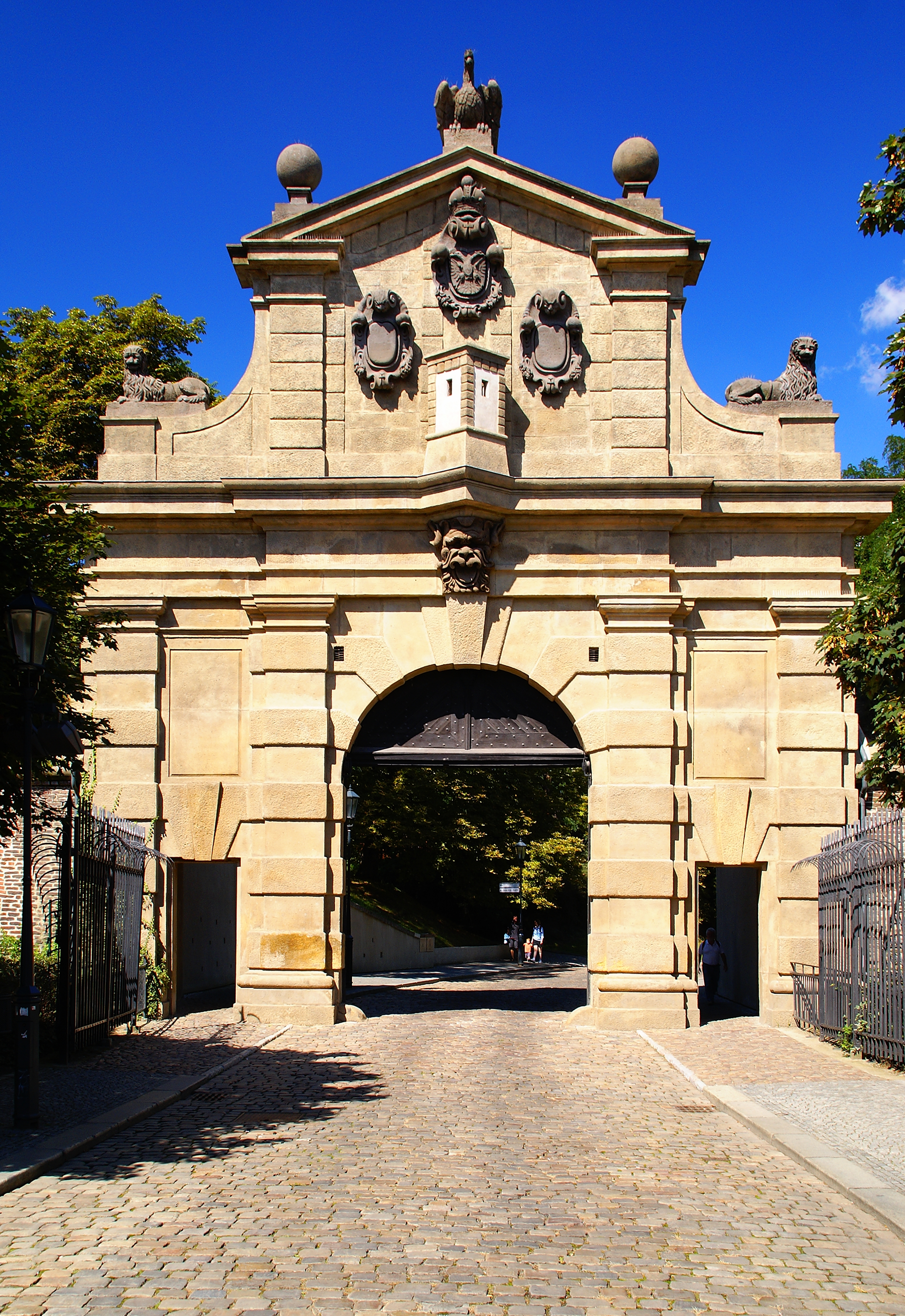 Prague, Vyšehrad, Leopold Gate